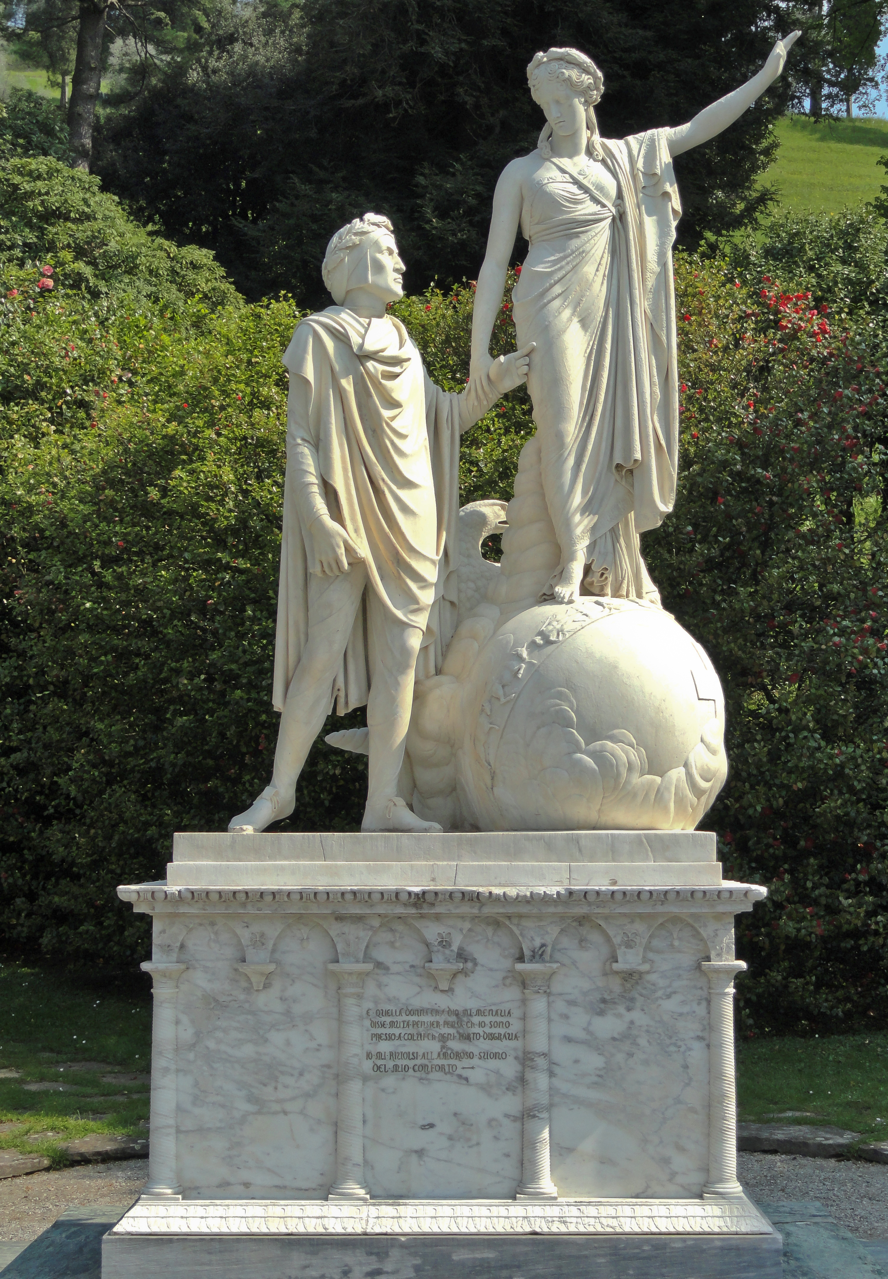 Statue of Beatrice consoling Dante, by Giovanni Battista Comolli, on the grounds of the Villa Melzi (Bellagio), on Lake Como, Italy.